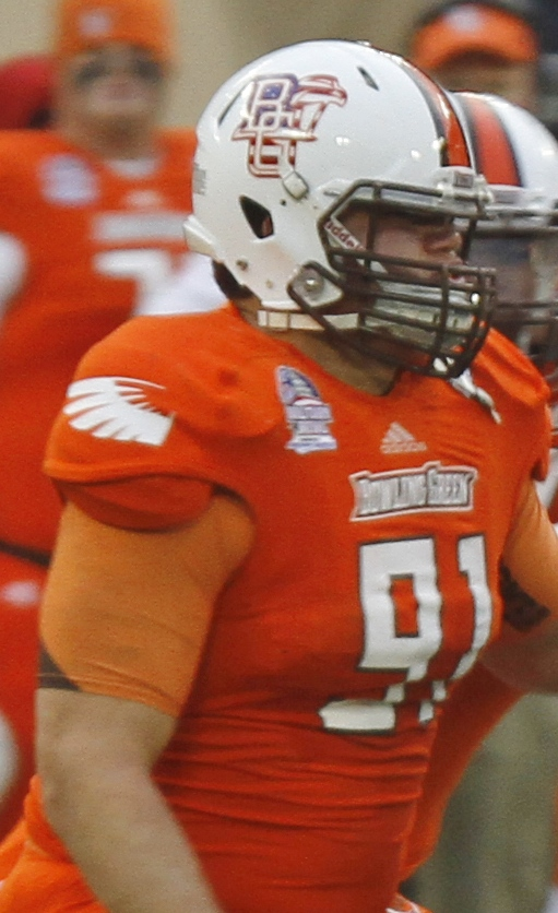 Defensive tackle Chris Jones (#91) of Bowling Green blocks running back Ina Liaina (#42) of San Jose State during the 2012 Military Bowl.